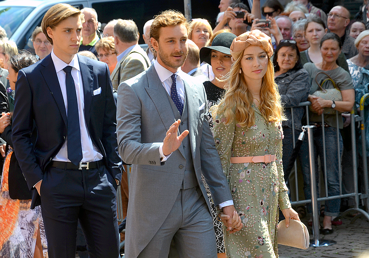 Many guests had been coming on July 8, 2017 into the Marktkirche, Hanover to the wedding of Ekaterina Malysheva and Ernst August Prinz von Hannover ...